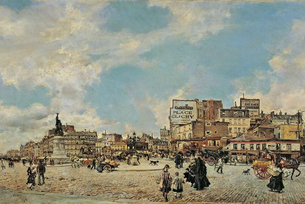 Place Clichy, oil on canvas painting by Giovanni Boldini, 1874